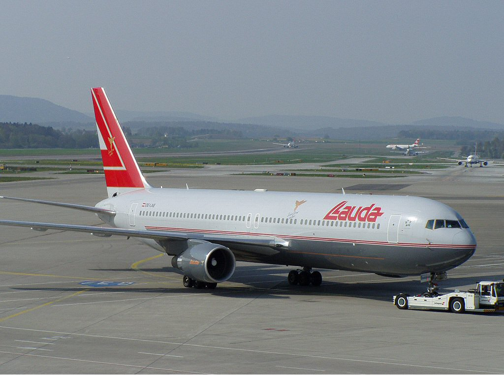 Lauda Air Boeing 767-3Z9/ER at Zurich Airport